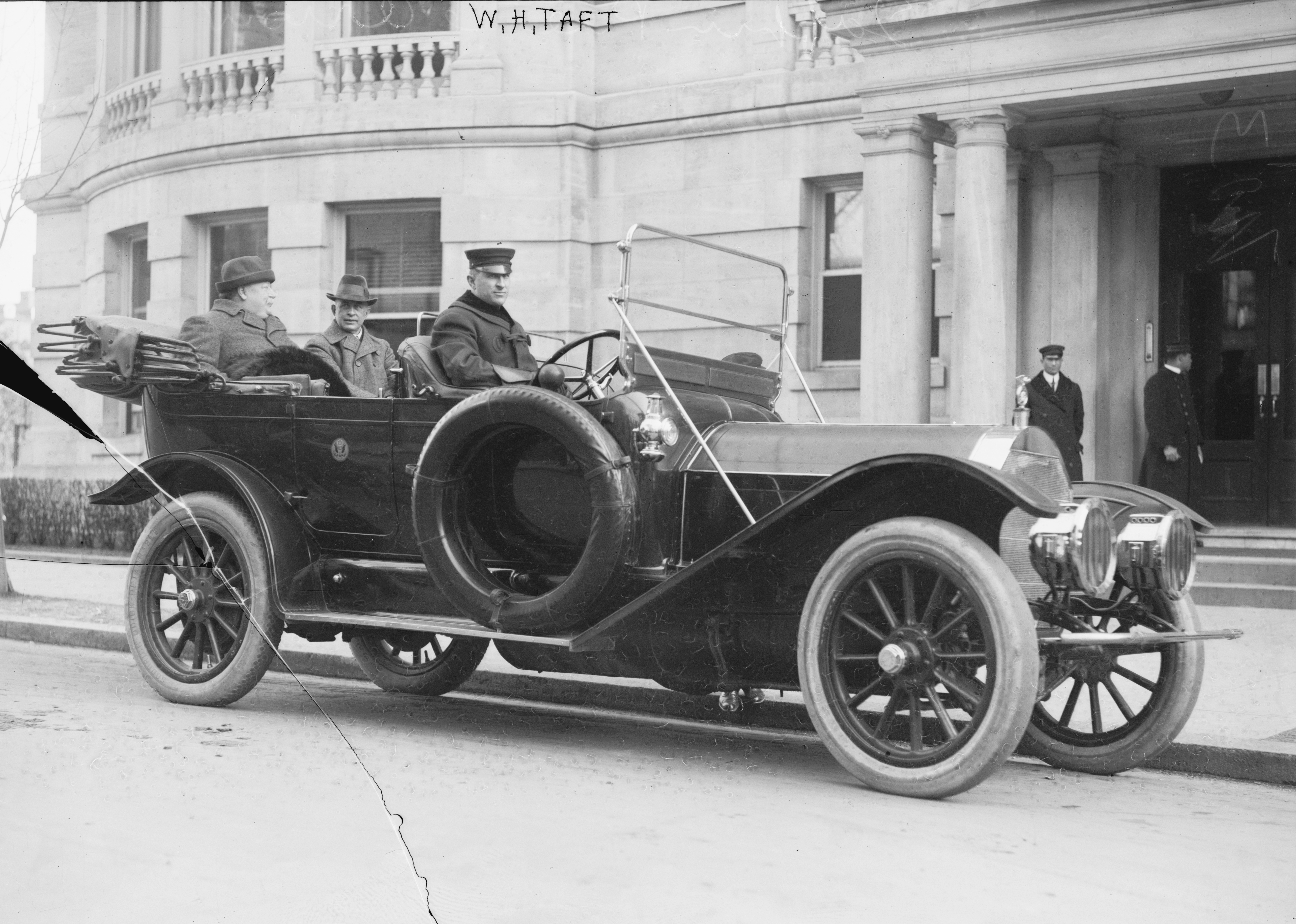 U. S. President William Howard Taft (seated in back right of the car; at left of photo) in his Pierce-Arrow touring car. Unidentified man seated next to President Taft. The driver is not identified but is likely Taft's official driver, George Robinson.